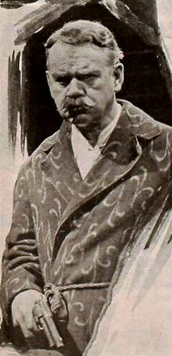 American actor Hardee Kirkland from an ad for A Splendid Hazard (1920), on page 4599 of the June 5, 1920 Motion Picture News.